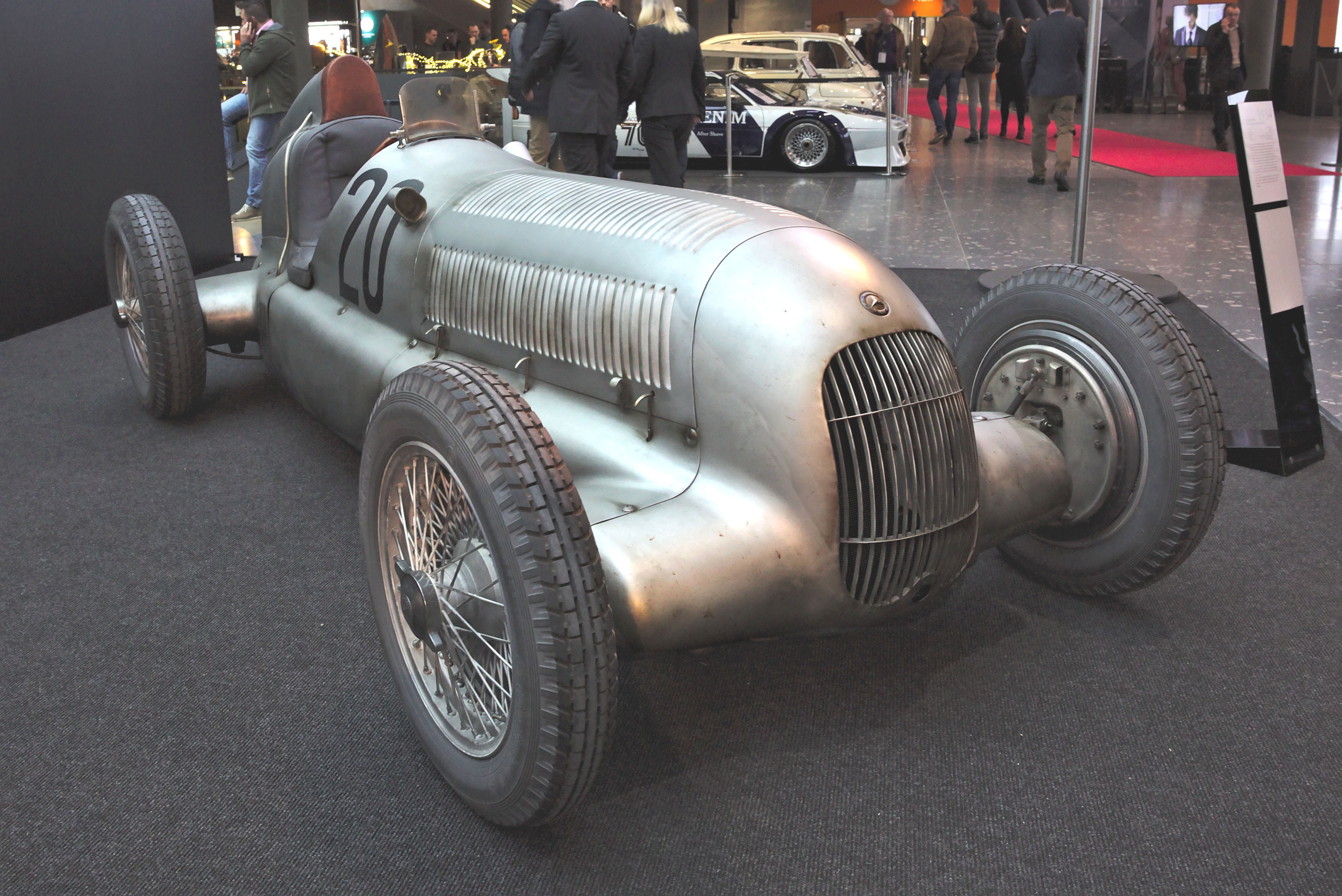 Mercedes-Benz 750-kilogram racing car W 25 at Retro Classics 2018